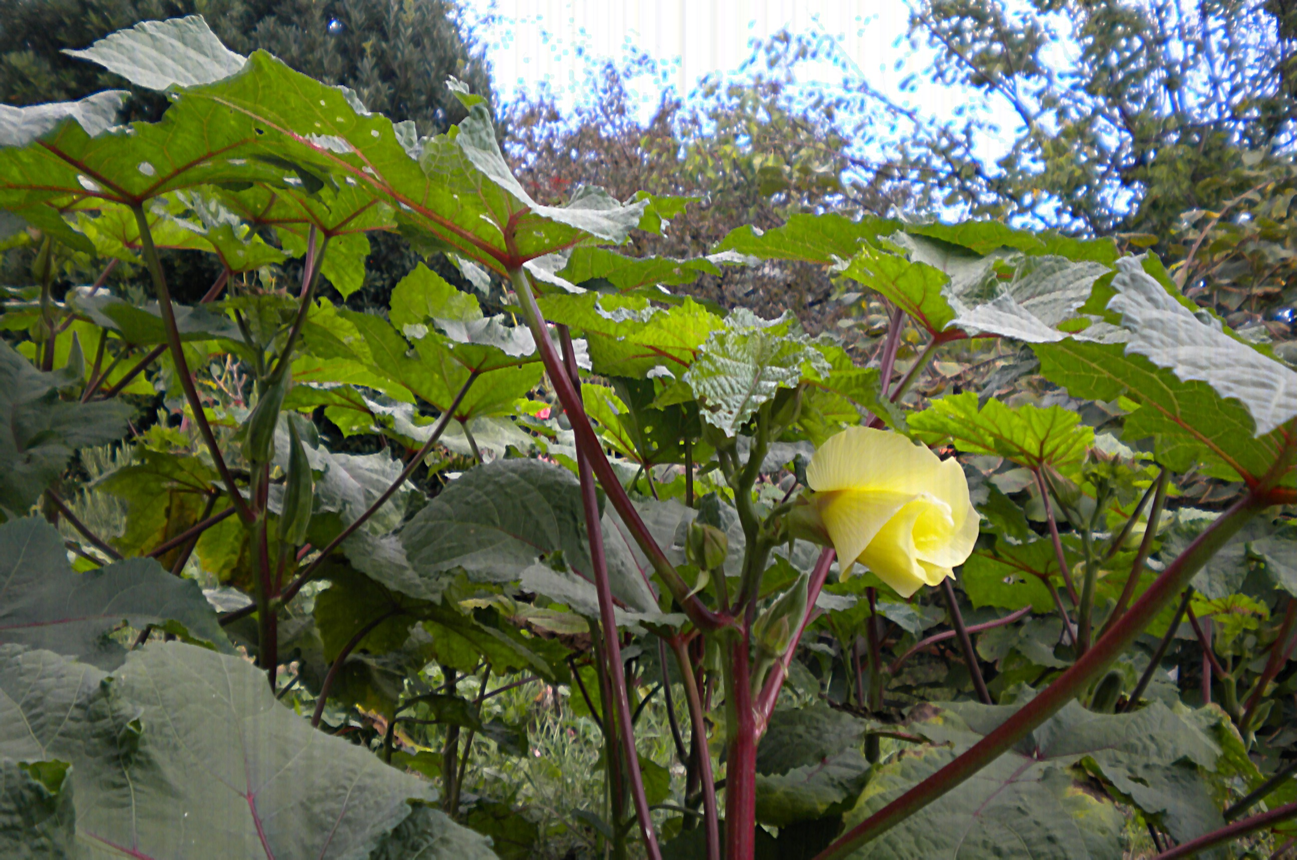 Okra plants with fruits and a flower